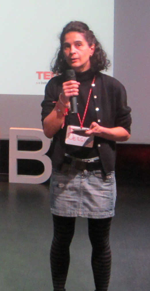 Dessislava Boshnakova